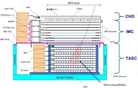 CALET/CAL Instrument diagram CALorimetric Electron Telescope (CALET) is an astrophysics mission that searches for signatures of dark matter and provides the highest energy direct measurements of the cosmic ray electron spectrum in order to observe discrete sources of high energy particle acceleration in our local region of the Galaxy.